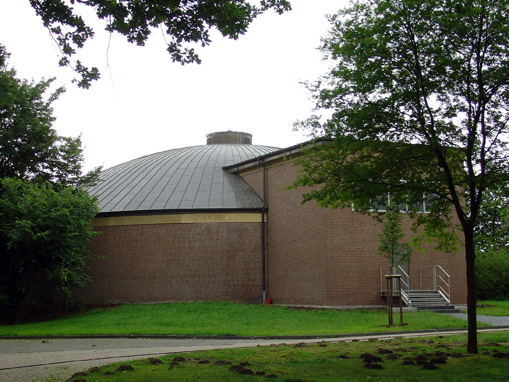 Reservoir of drinking water in Harsewinkel